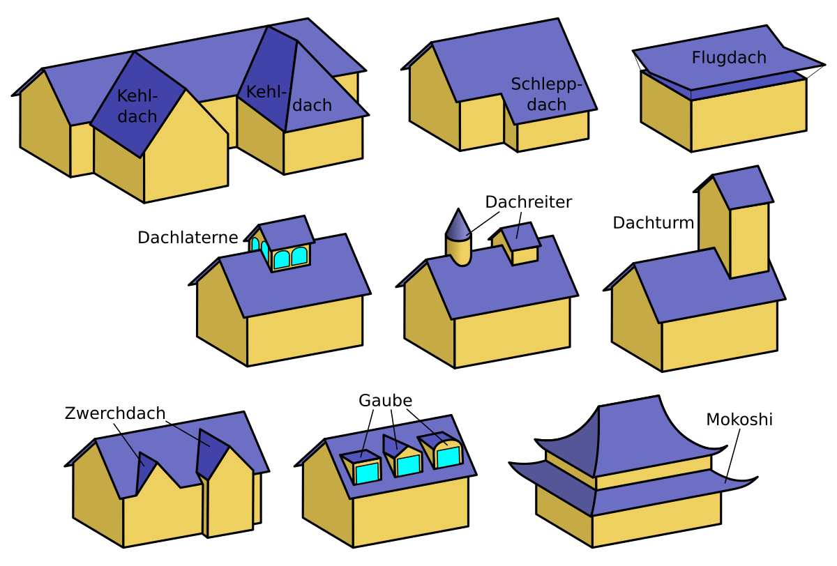 roof extensions with German labels